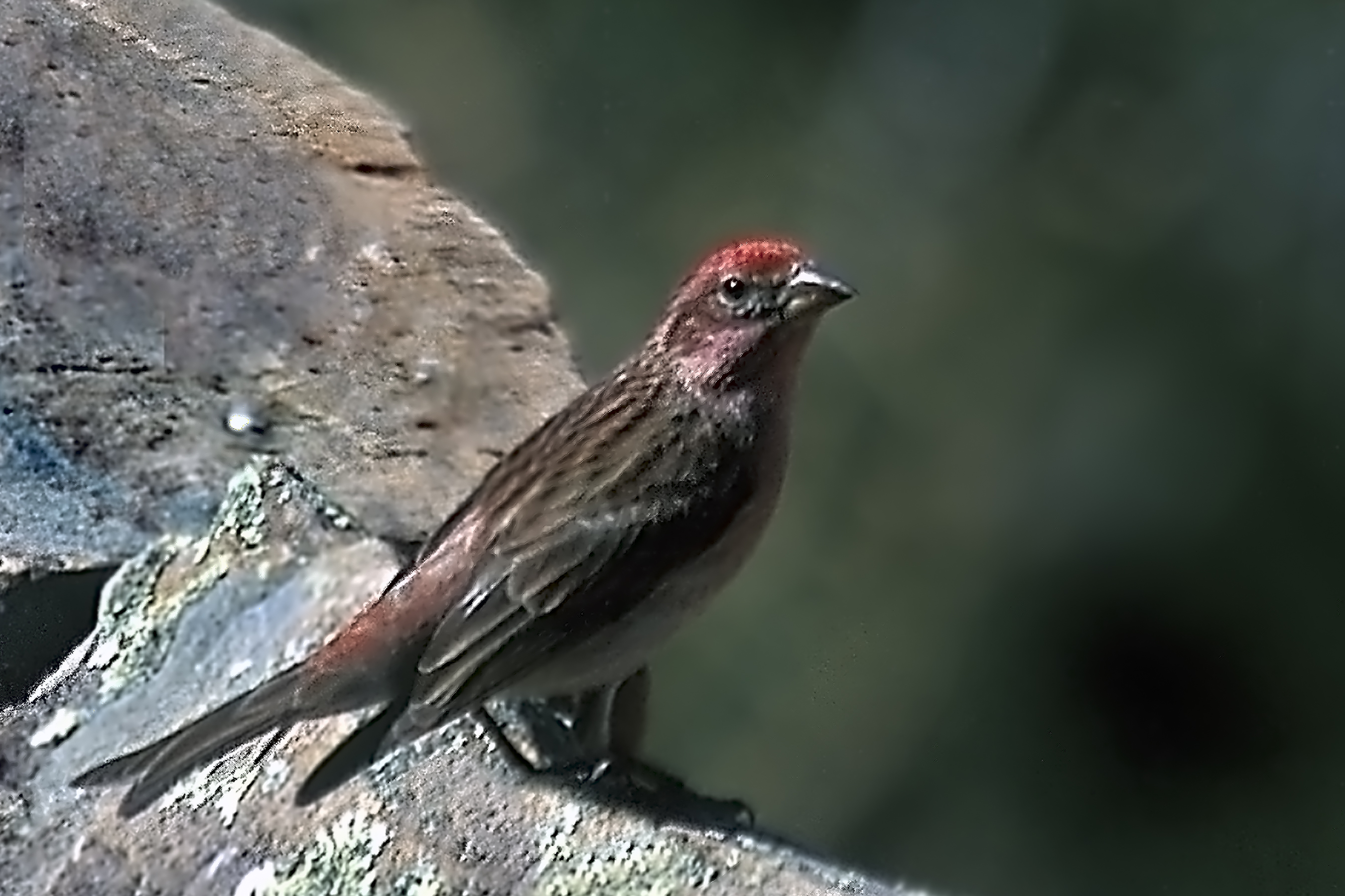 Cassin's Finch has a white unmarked middle front that distinquishes it from the House Finch.